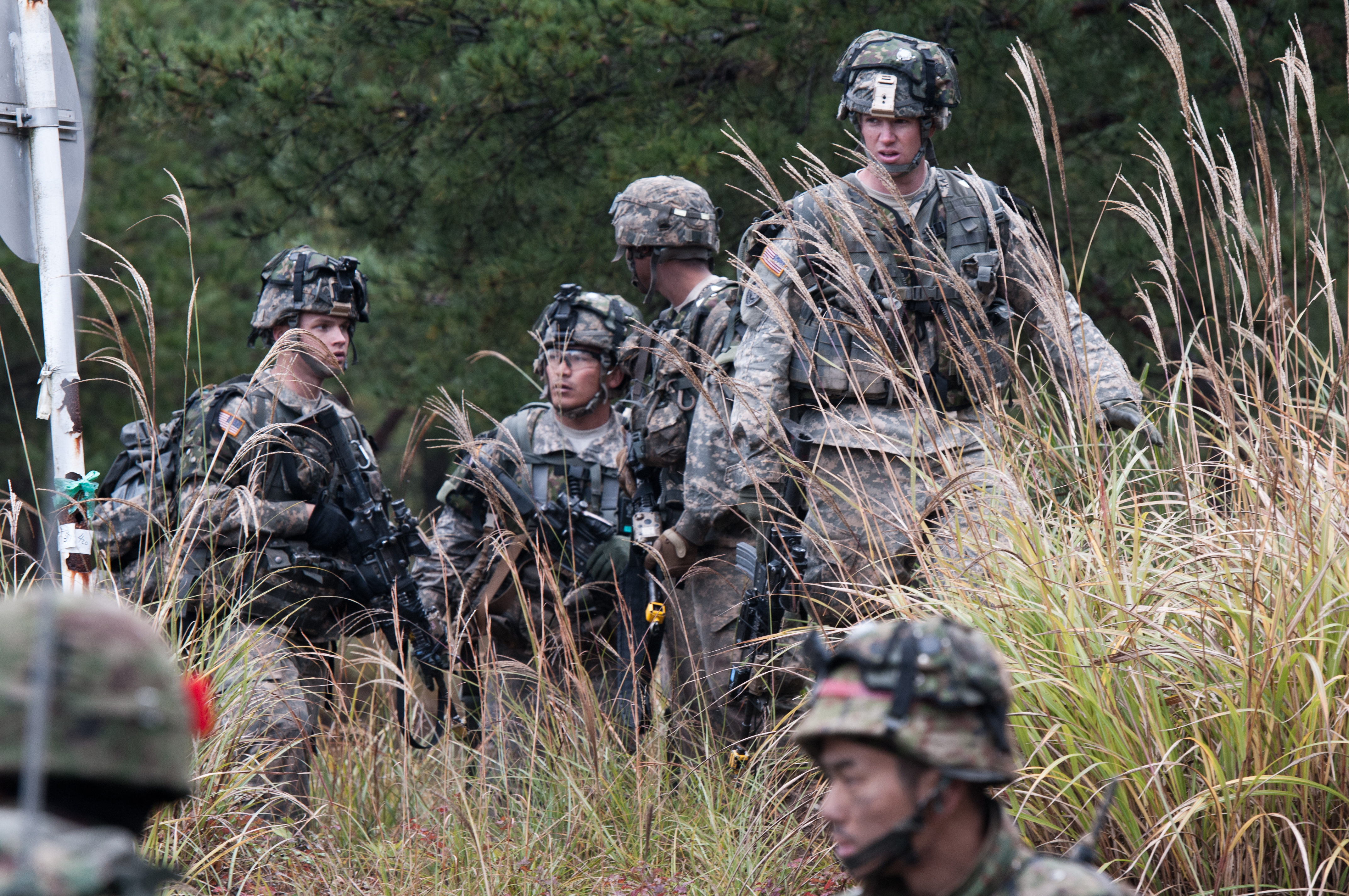 Soldiers of the 1st Battalion, 14th Infantry Regiment, 2nd Stryker Brigade Combat Team and Soldiers of the Japanese Ground Self Defense Force march to their next objective during a Field Training Exercise on Oct. 31 as part of Orient Shield 2012. Orient Shield is an annual bilateral training event held in Japan between US forces and the Japanese Ground Self Defense Force to foster a working relationship between the two Pacific partners.